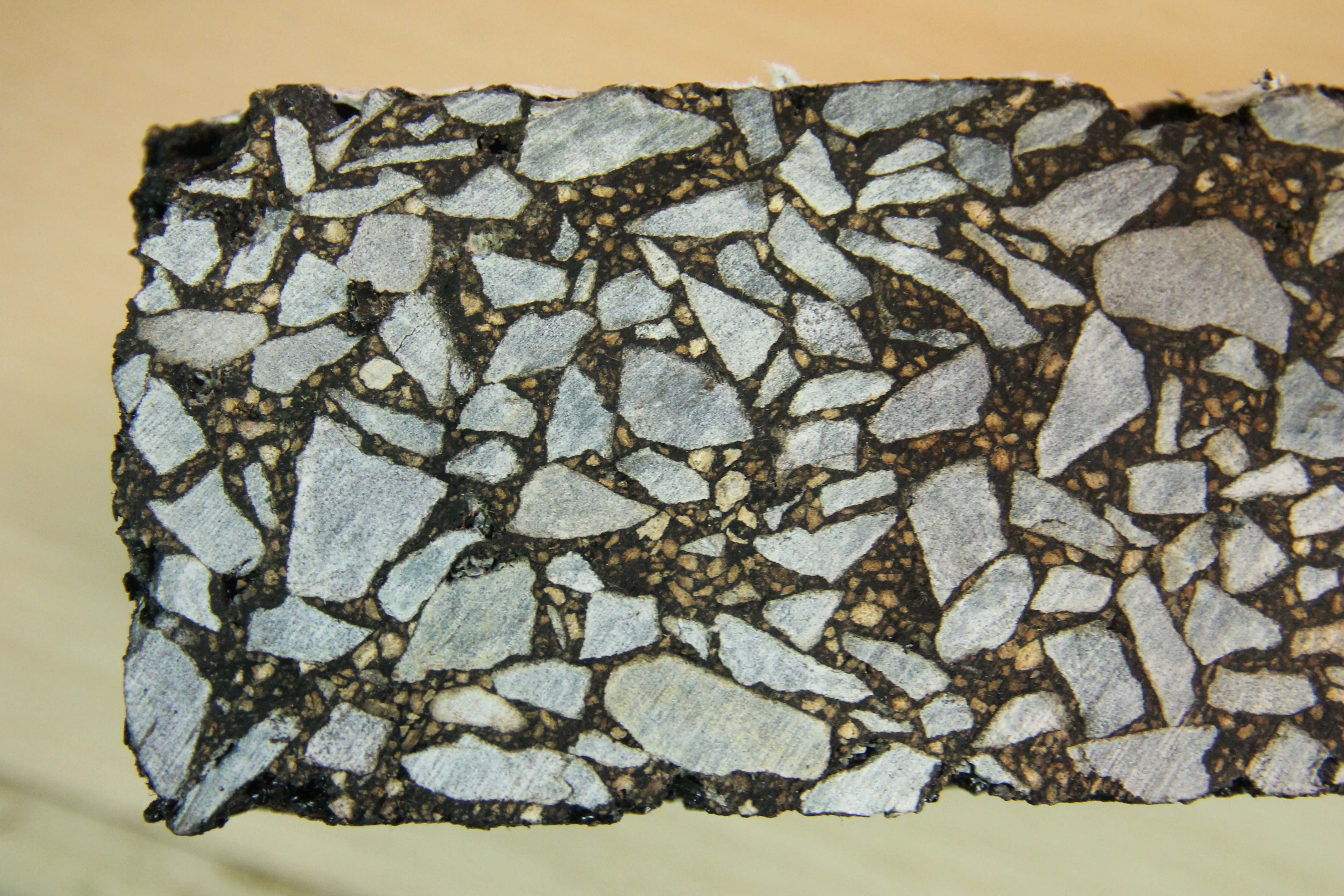 Asphalt plant in Arganda del Rey